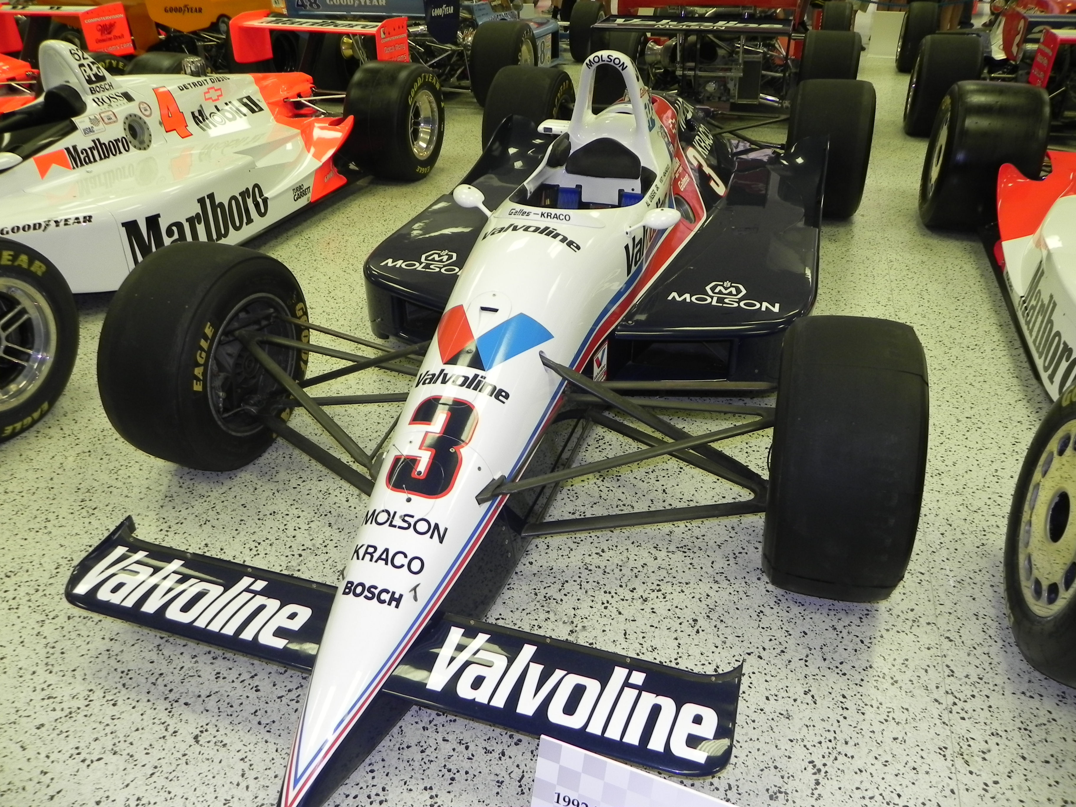 Image of the winning car of the 1992 Indianapolis 500 (Al Unser, Jr.). Photo was taken at the Indianapolis Motor Speedway Hall of Fame Museum, during the month of May 2011, at the 100th Anniversary "Ultimate Indianapolis 500 Winning Car Collection."